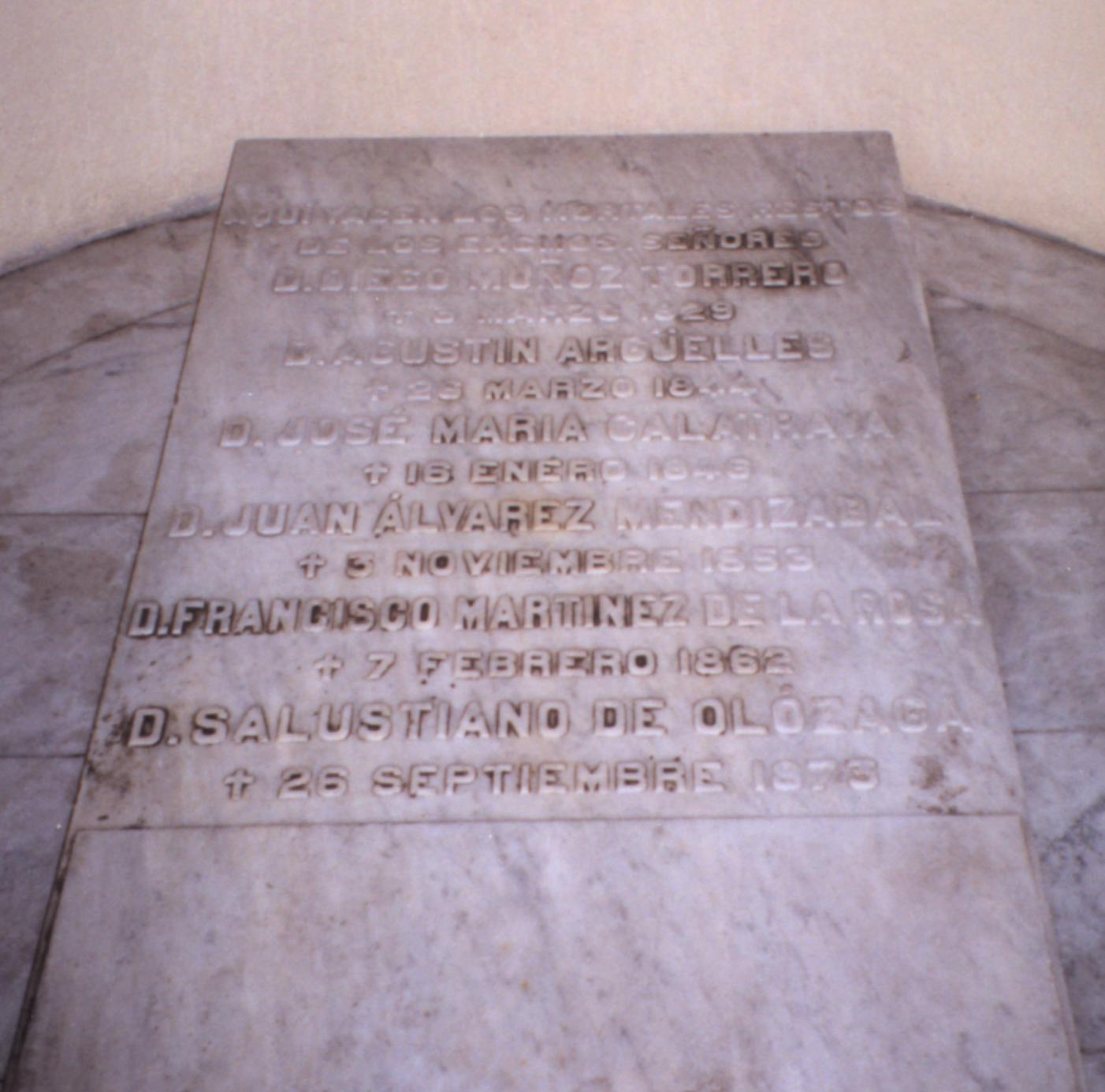 Tombstone of the joint mausoleum of six Spanish liberal politicians: Agustín Argüelles, José María Calatrava, Juan Álvarez Mendizábal, Diego Muñoz-Torrero, Francisco Martínez de la Rosa and Salustiano Olózaga. At the cloister of the Panteón de Hombres Ilustres (Pantheon of Illustrious Men) in Madrid (Spain).